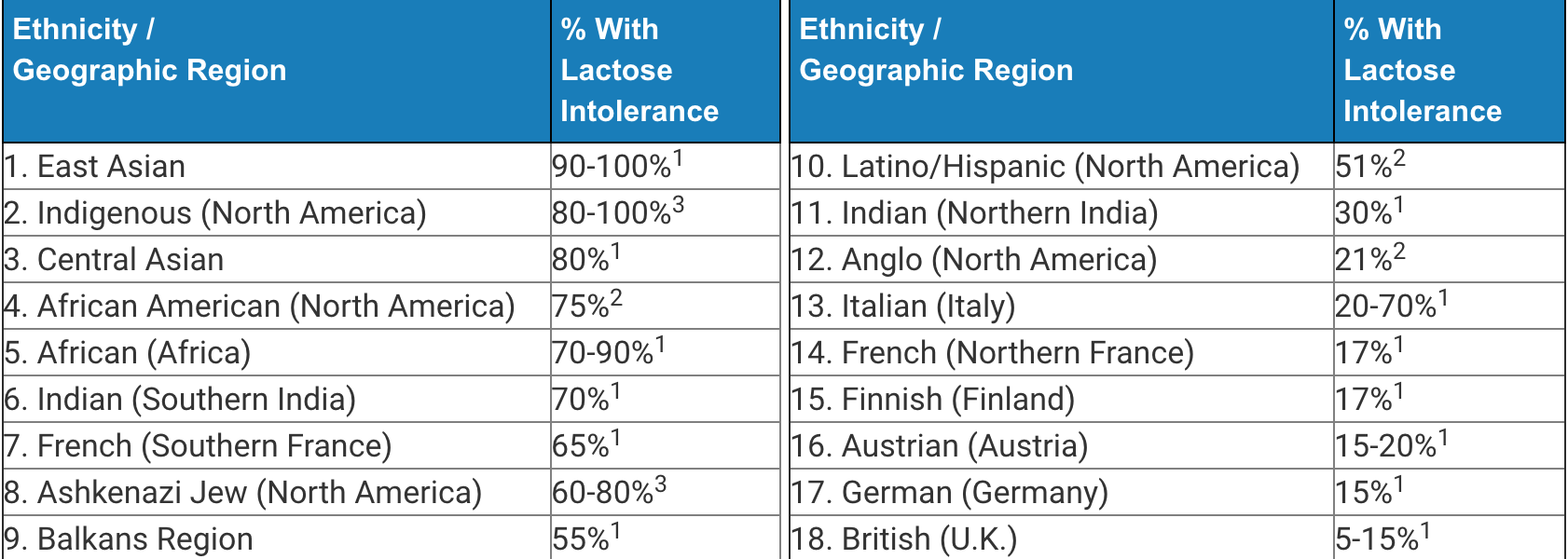 Lactose Intolerance by Ethnicity and Region